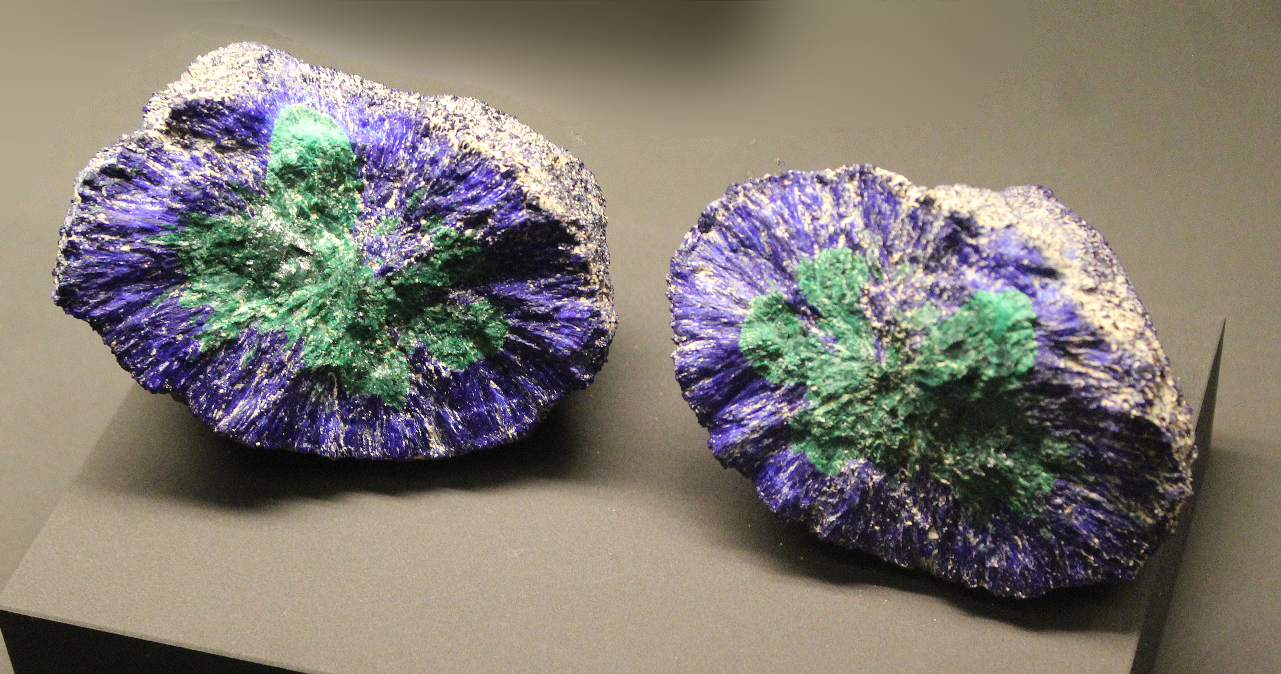 Freiberg, Terra mineralia, azurite, malachite location: Tsumeb, Namibia